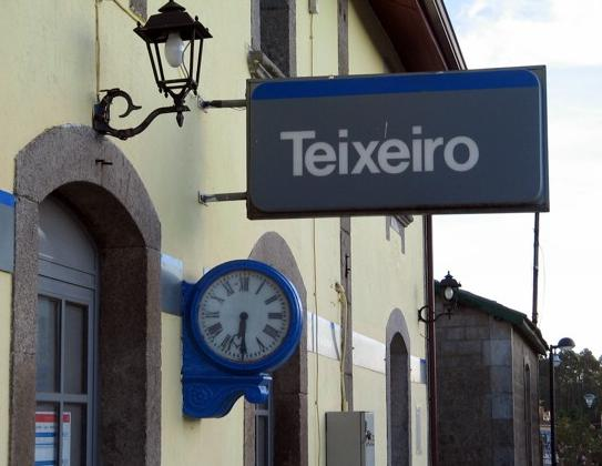 Picture of the Teixeiro train station, small community in Spain